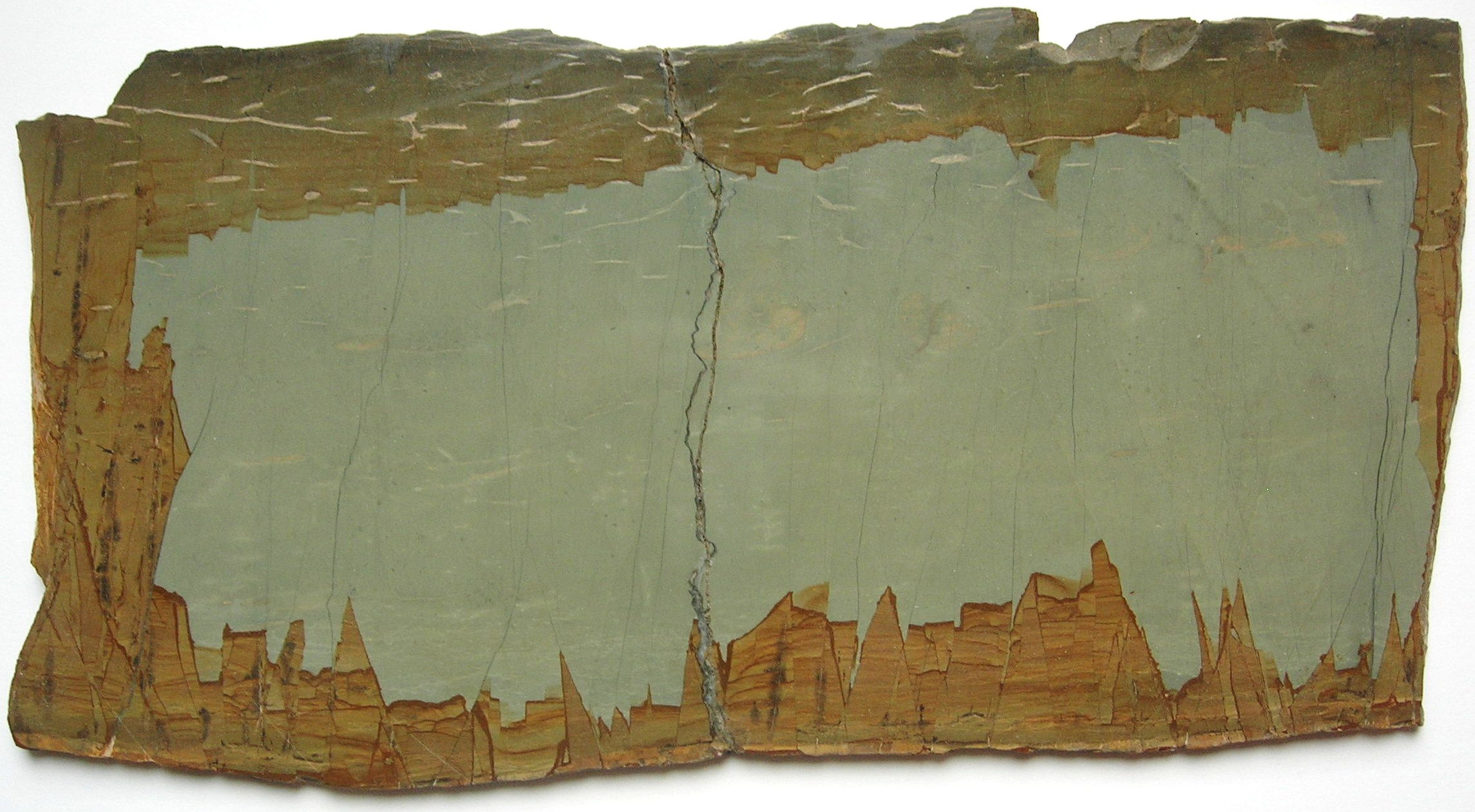 Ruin marble, "Florentine marble" or "Pietra paesina"